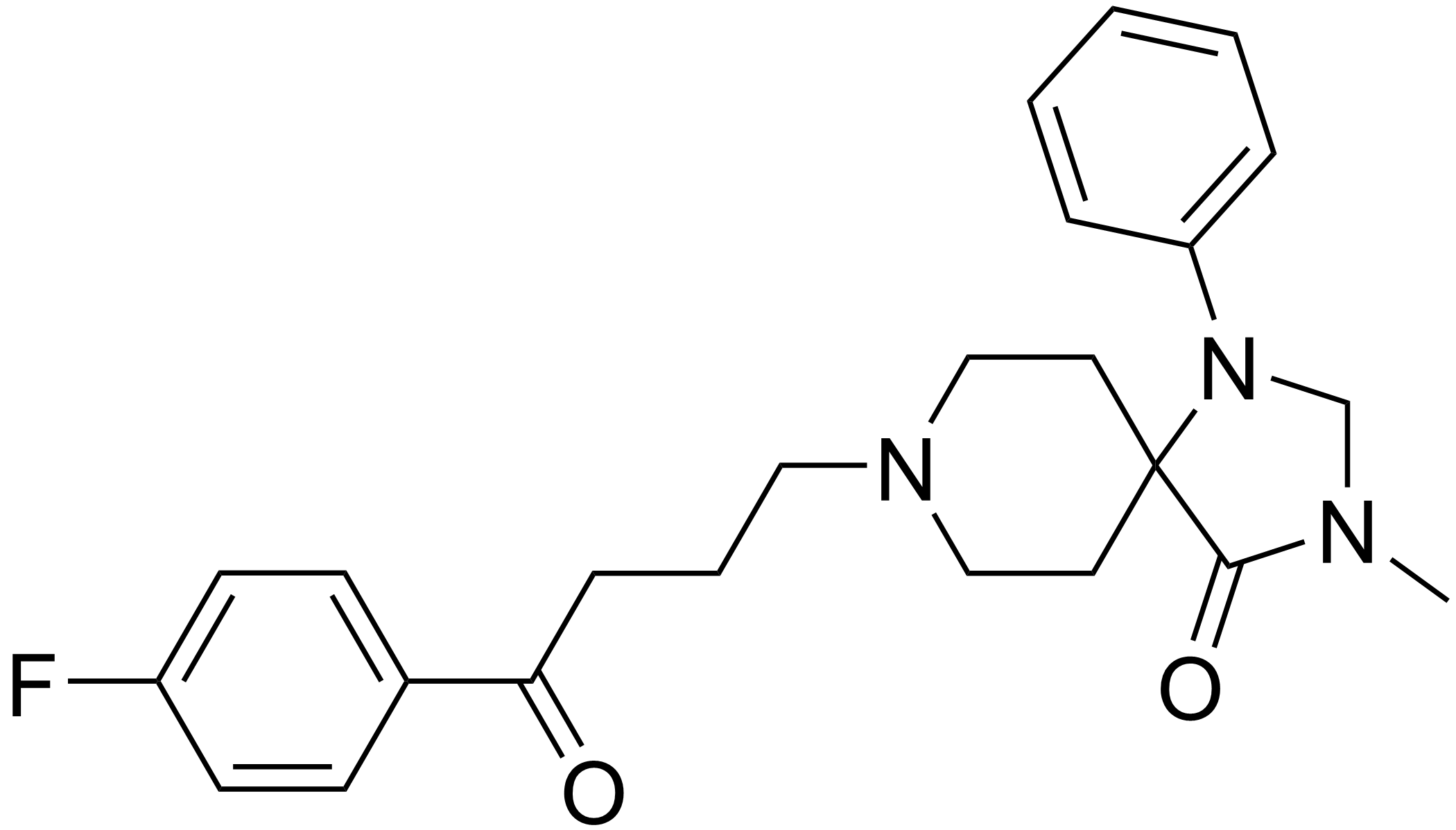 Chemical structure of N-methylspiperone